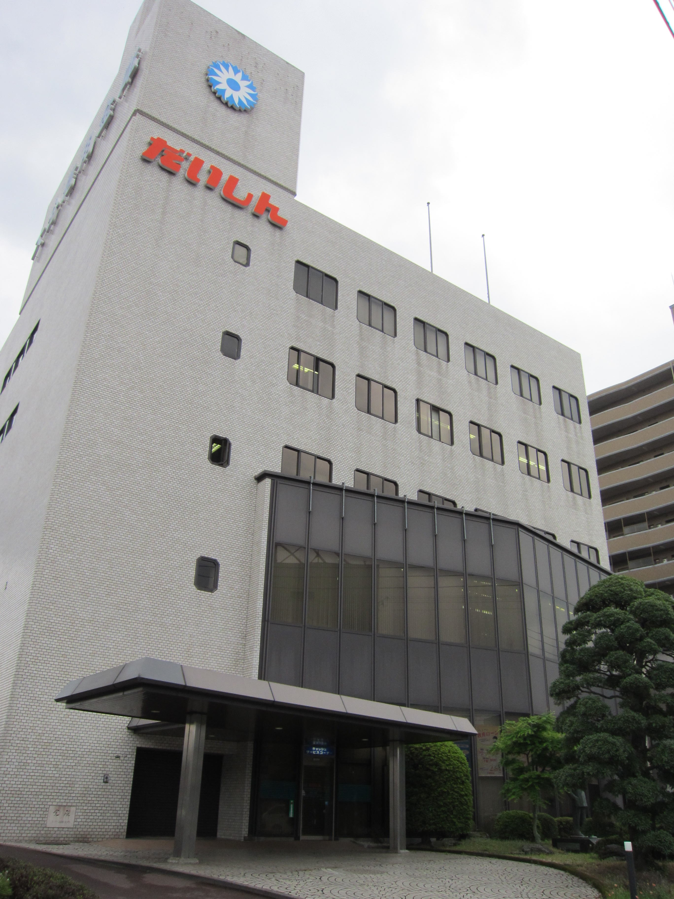 Oita Shinkin Bank